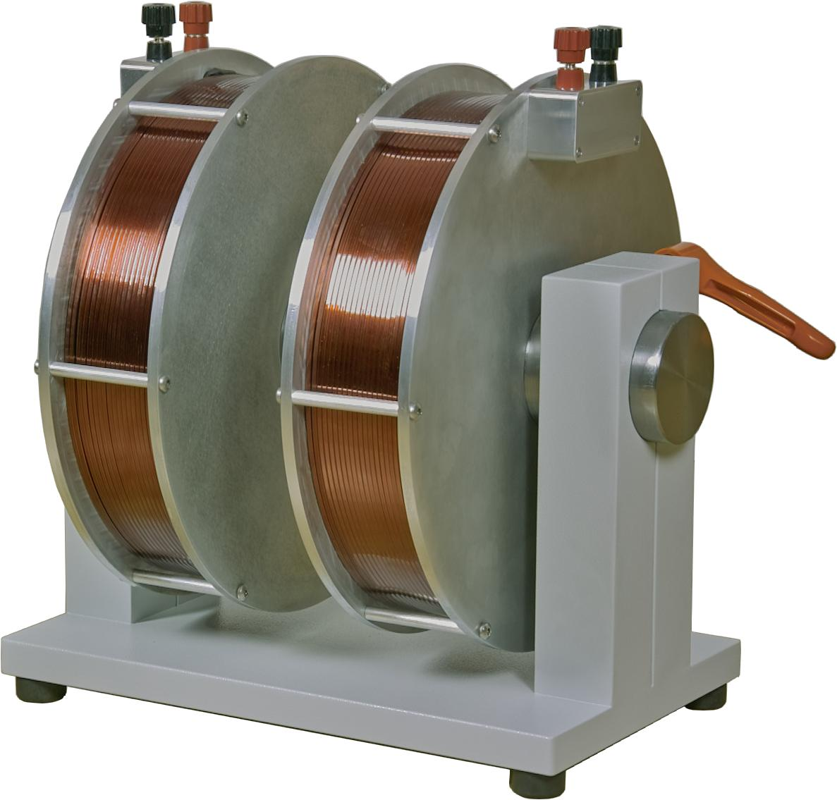 Electromagnet with variable air gap, creates up to 2 Tesla magnetic fields with 20 A.